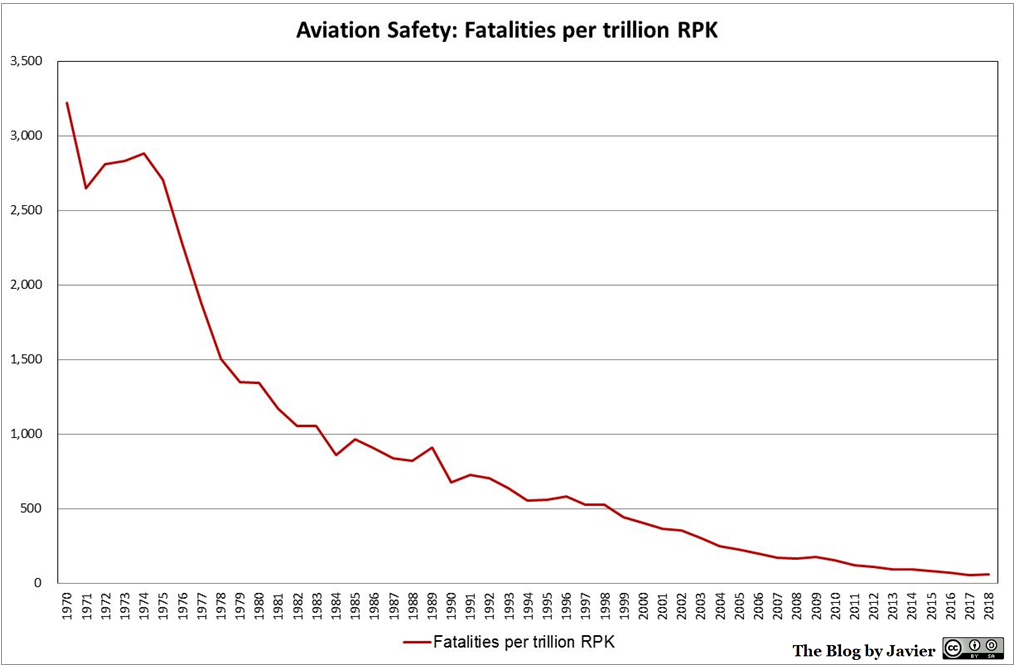 1970-2018 fatalities per revenue passenger kilometre in air transport